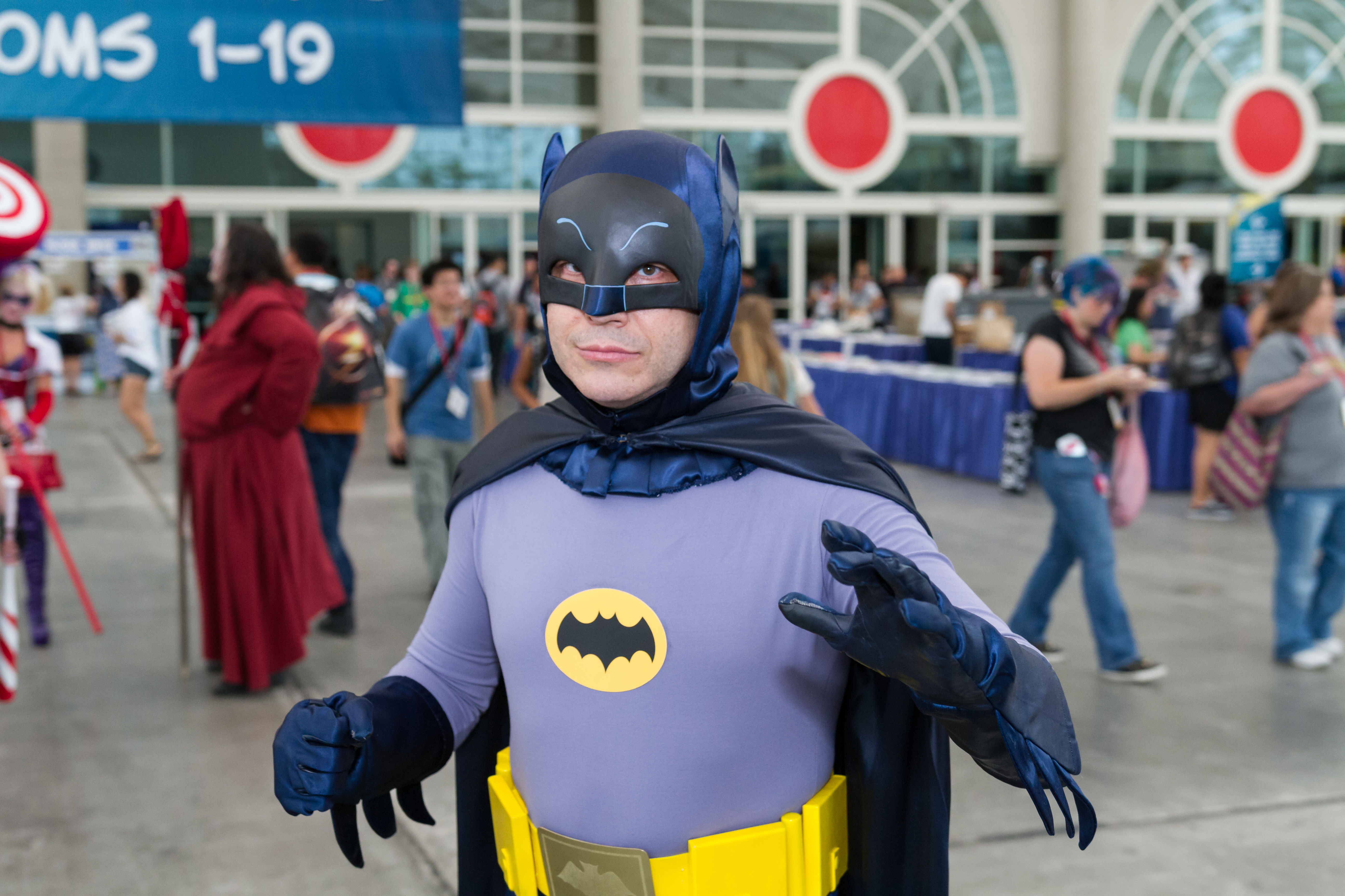 Cosplay at San Diego Comic-Con (SDCC 2014).